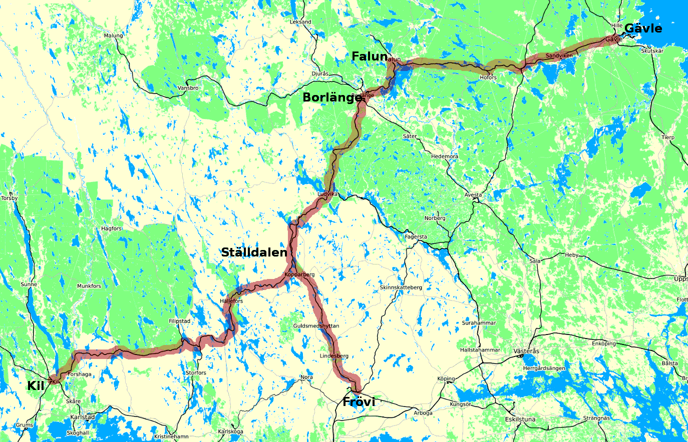 This map may be incomplete, and may contain errors. Don't rely solely on it for navigation.